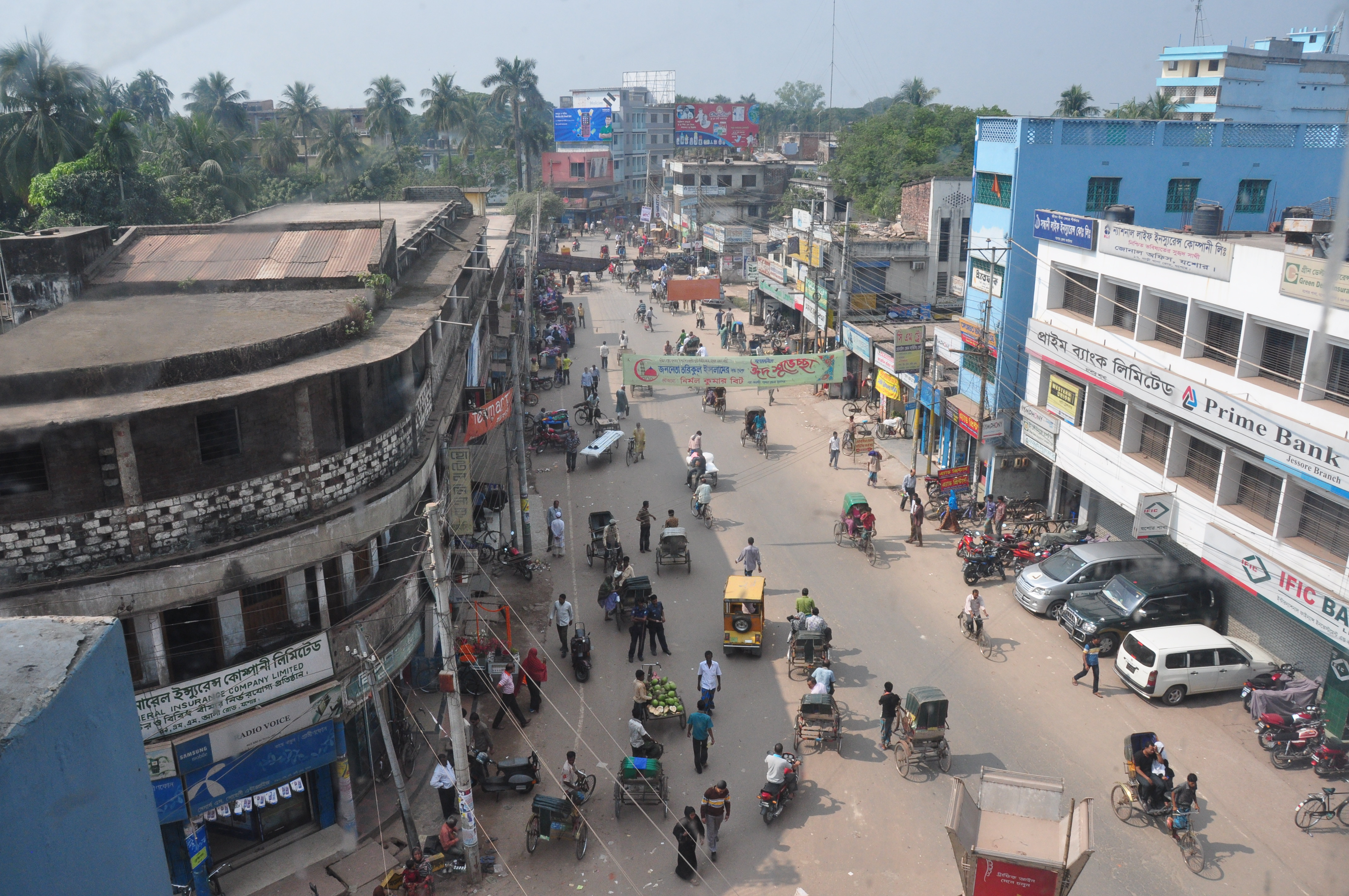 A view of central Mohin in Bangladesh, taken from the Magpie hotel